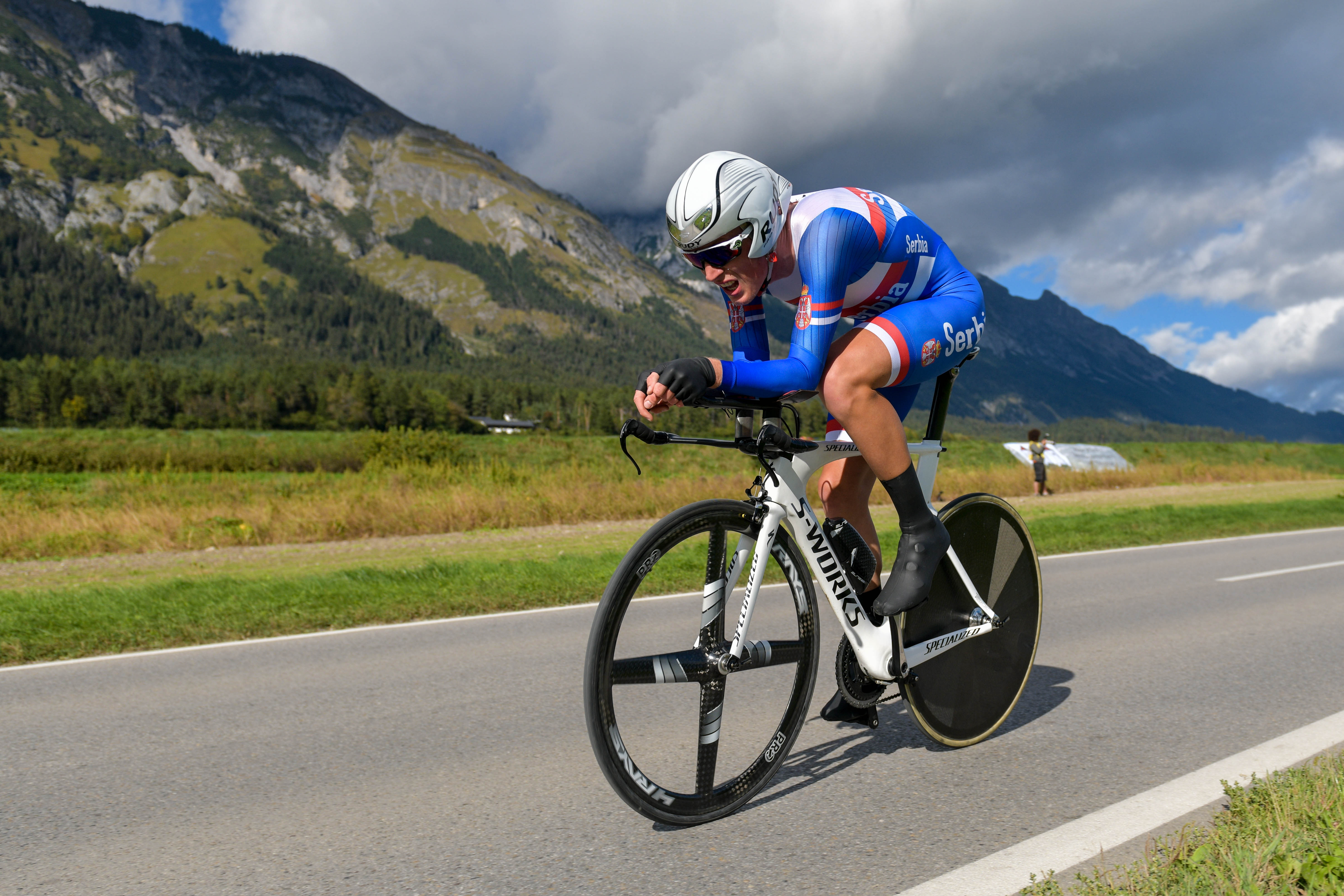 2018 UCI Road World Championships Innsbruck/Tirol Men under 23 Individual Time Trial. Picture shows: Veljko Stojnic of Serbia